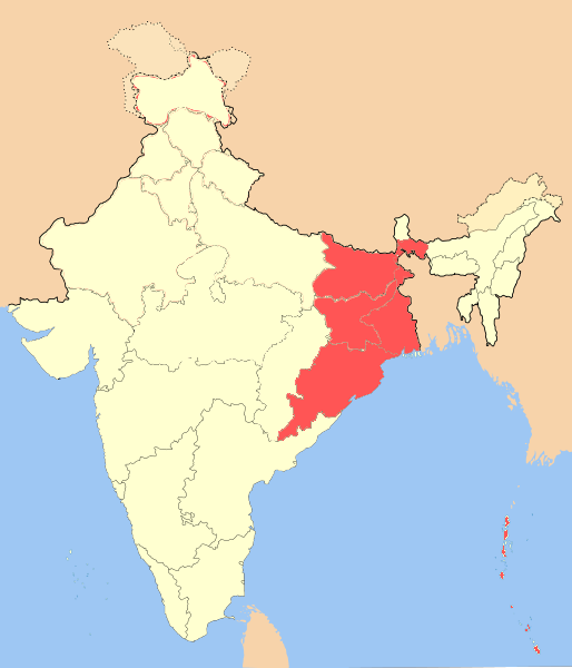 East India locator